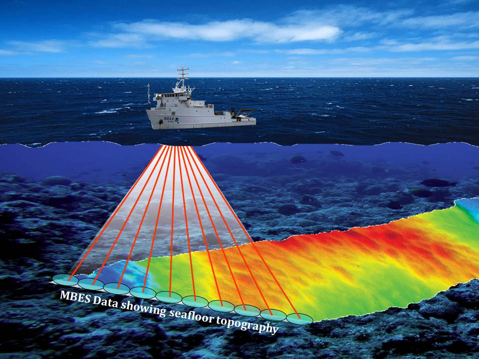 Artist's conception of multibeam sonar on NOAA Ship NANCY FOSTER Image ID: fis01334, NOAA's Fisheries Collection Credit: NOS/NCCOS/CCMA